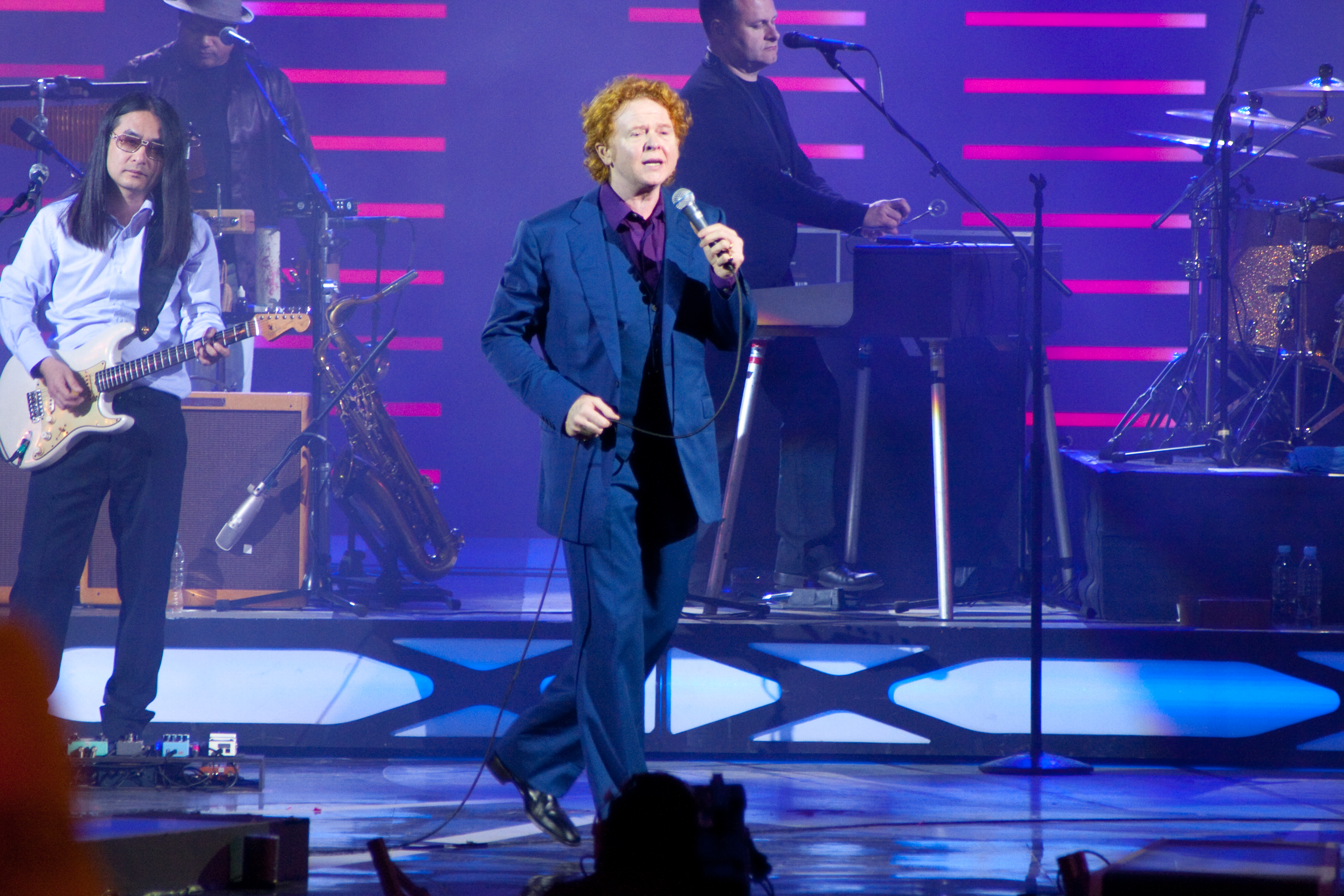 Simply Red